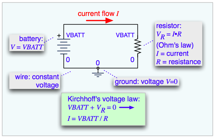 A simple schematic diagram with a battery and a resistor, showing the use of Ohm's law and Kirchhoff's voltage law to find the current.